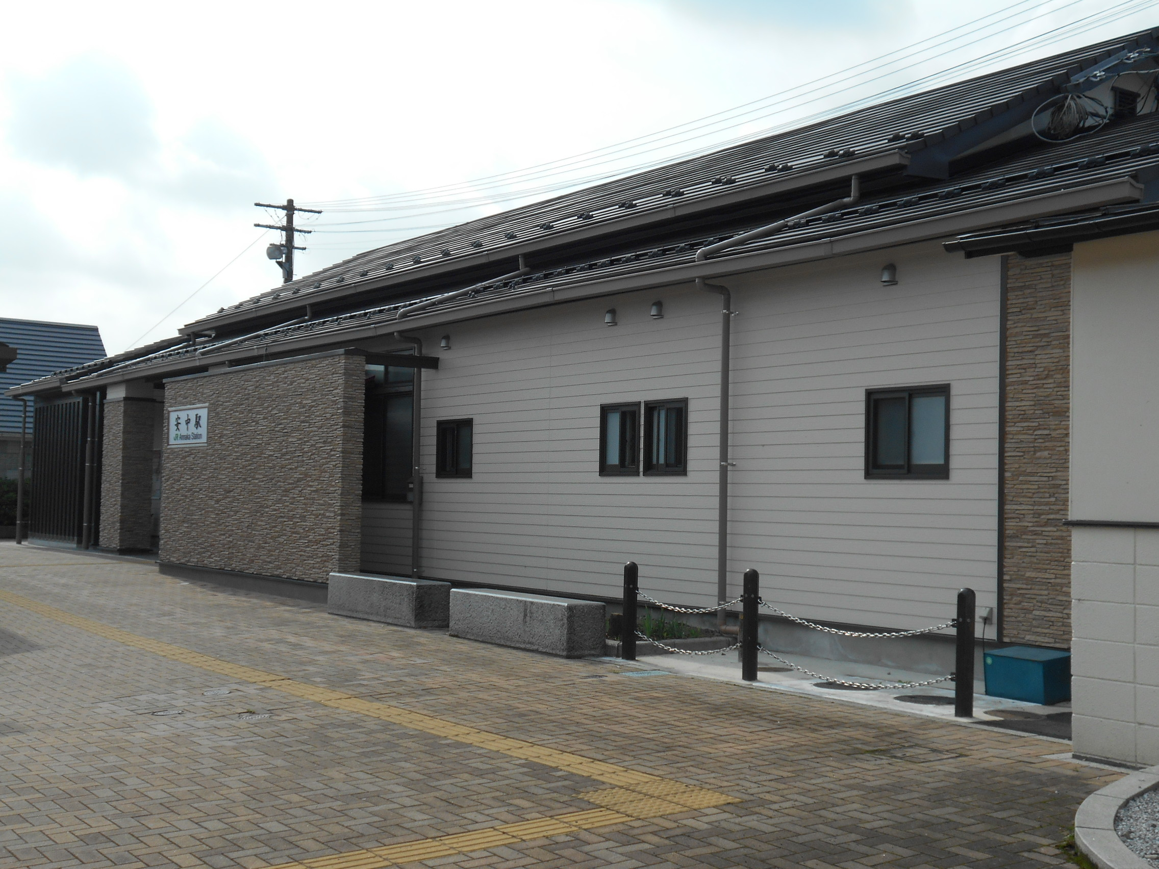 Annaka Station